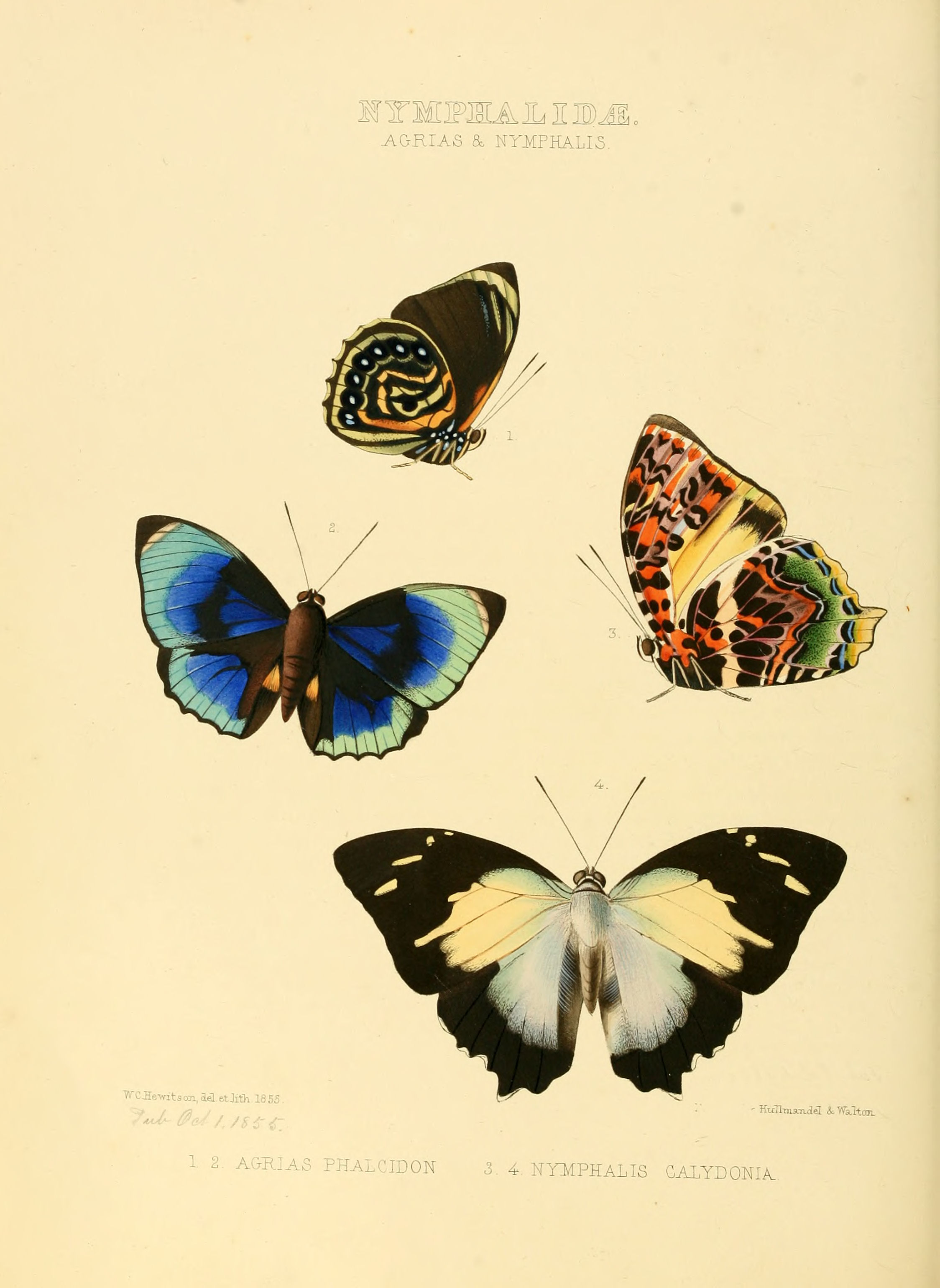 Plate: Agrias & Nymphalis Agrias phalcidon. Figs. 1, 2. Accepted as Agrias amydon Hewitson, 1854. Nymphalis calydonia. Figs. 3, 4. Accepted as Agatasa calydonia (Hewitson, 1855).